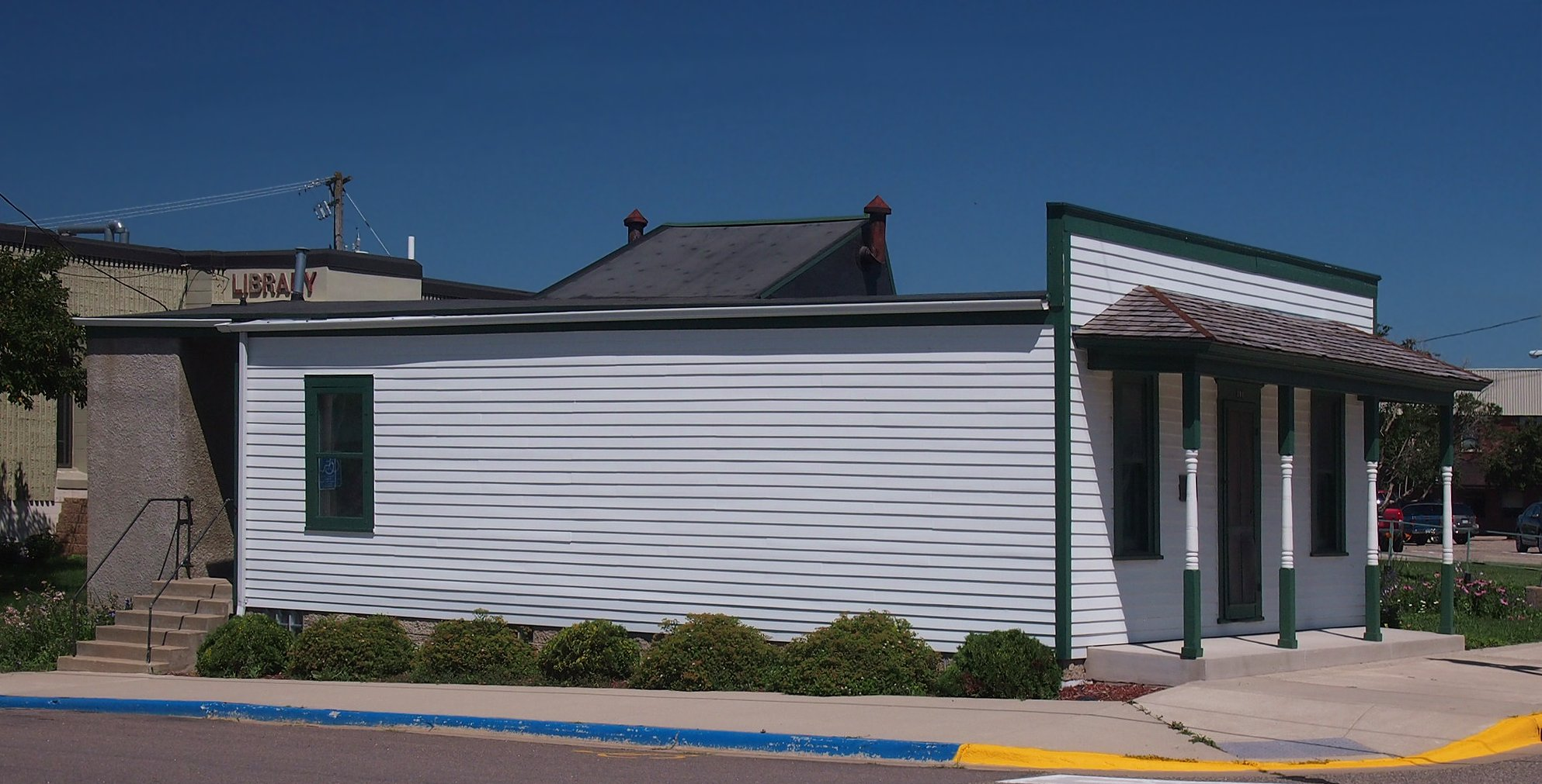 August Akerlund Photographic Studio, 390 Broadway Ave, Cokato, Minnesota, USA. Only known early-20th-century photography studio still standing in the Upper Midwest. Now part of the Cokato Museum. Viewed from the southeast.